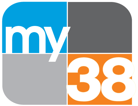 This is the Former/2D Logo of the Television Station, WSBK-TV ("myTV38"), from September 19, 2011 through August 2015.